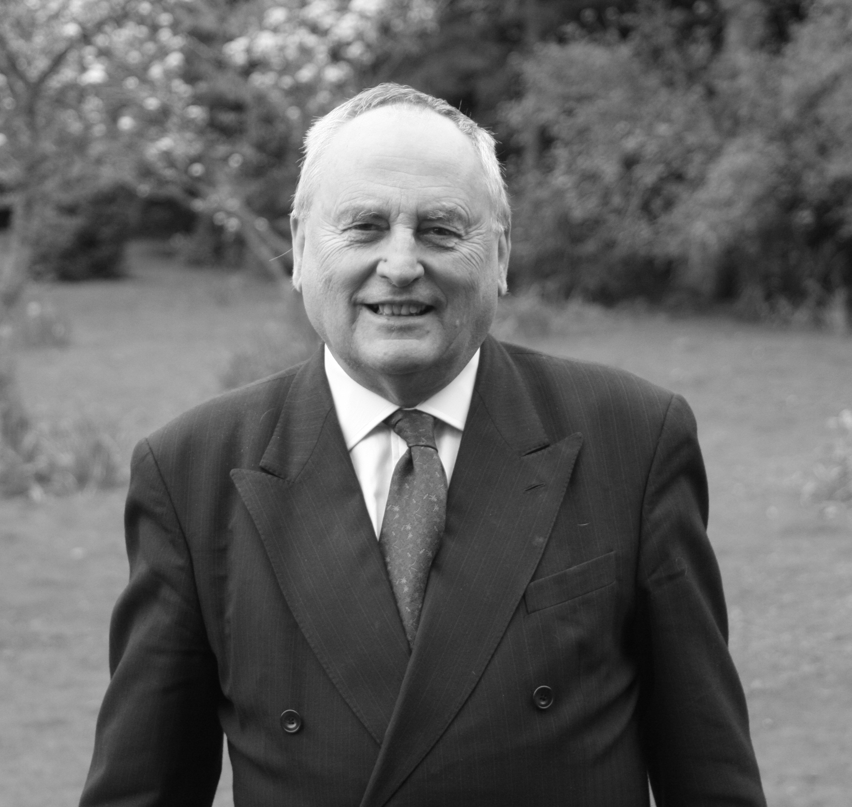 Donald Adamson in an orchard